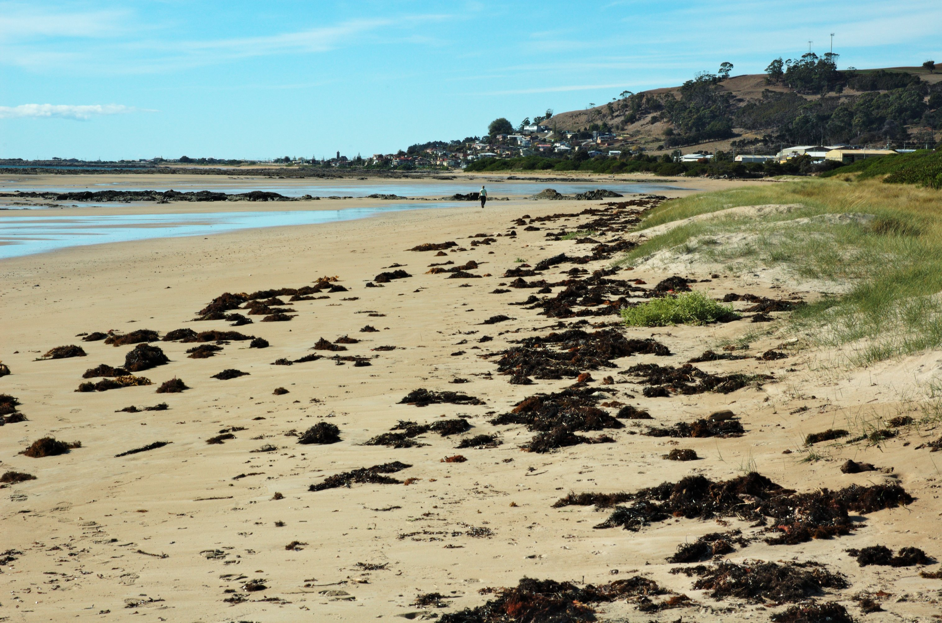 The beach at Somerset, Tasmania, looking east.